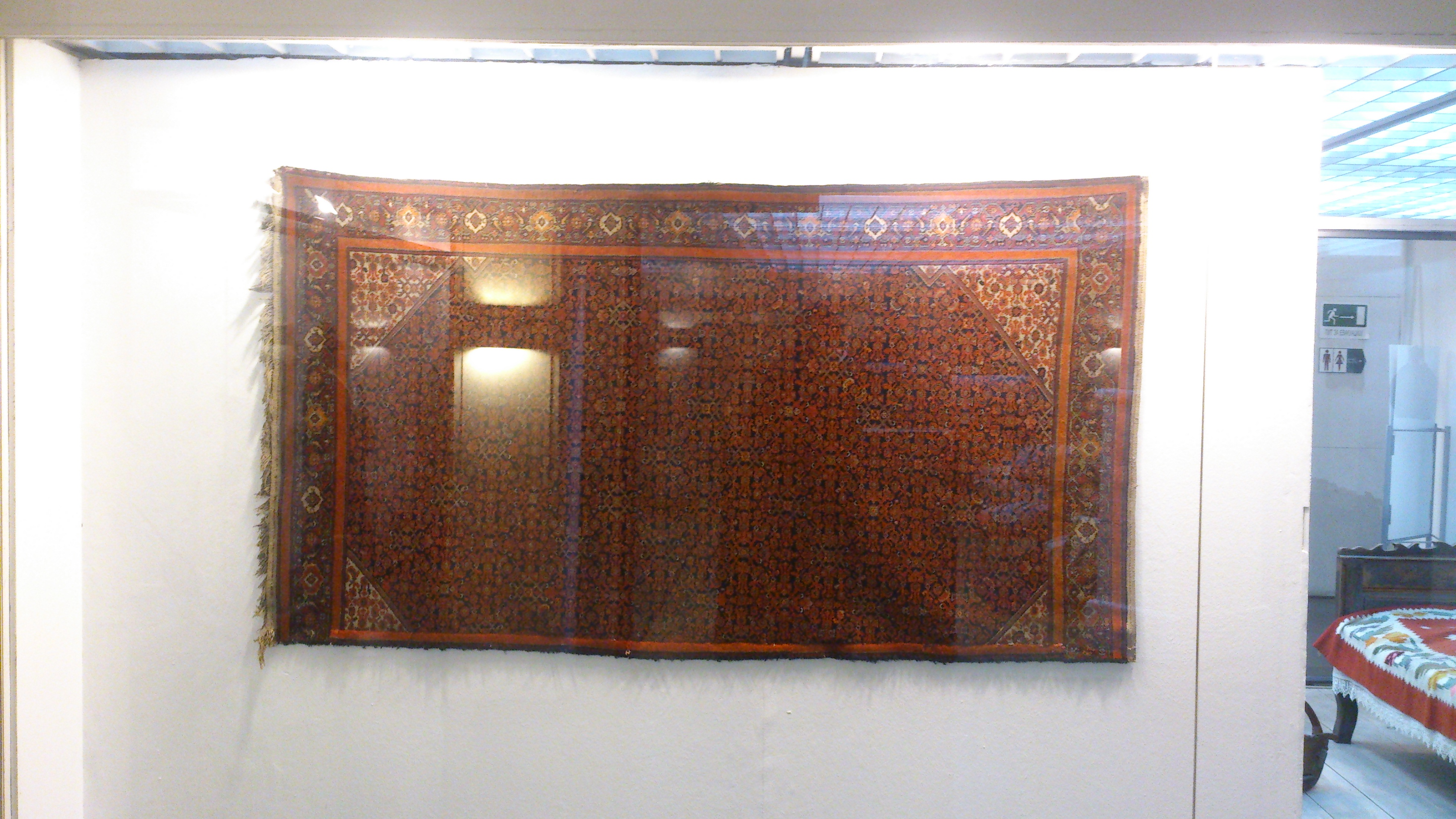 Ethnografic Museum in Belgrade, Serbia Srpski (latinica): Etnografski muzej u Beogradu